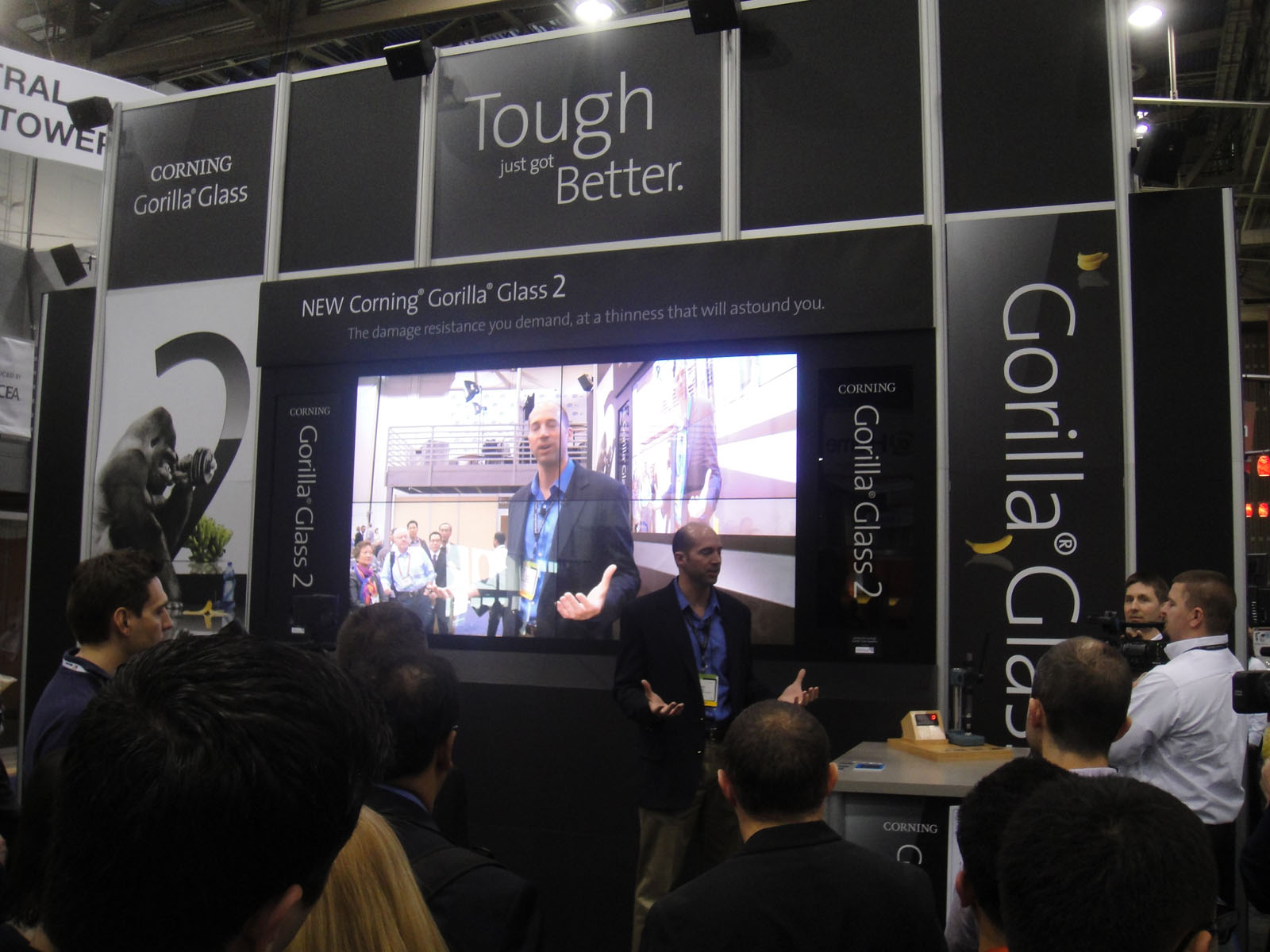 photo 2012 Pop Culture Geek taken by Doug Kline If you're interested in higher resolution versions of my images, contact me via my profile page.